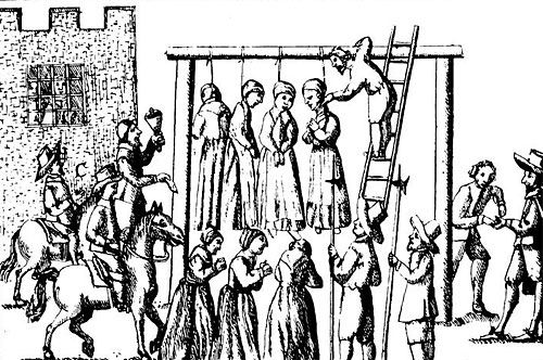 Witches being hanged, from Ralph Gardiner, England's Grievance Discovered in Relation to the Coal Trade, 1655.